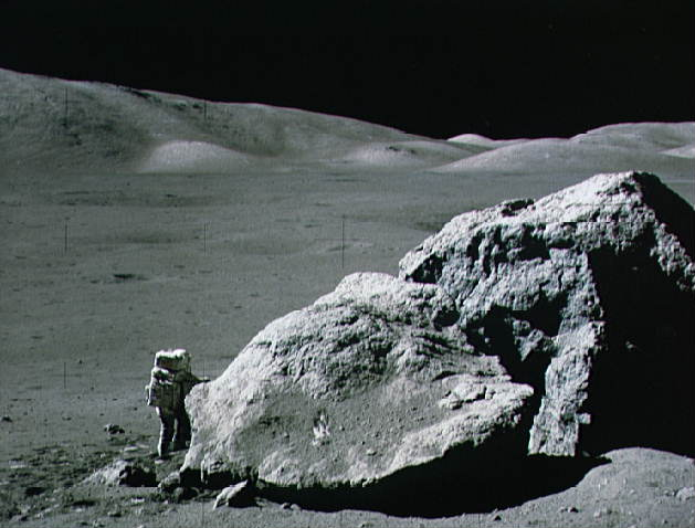 Apollo 17 on the moon. Apollo 17 astronaut Harrison Schmitt standing next to boulder at Taurus-Littrow during third ExtraVehicular Activity. Scientist-Astronaut Harrison H. Schmitt is photographed standing next to a huge, split boulder at Station 6 (base of North Massif) during the third Apollo 17 extravehicular activity (EVA-3) at the Taurus-Littrow landing site on the Moon. Notice the Lunar Roving Vehicle (LRV) is behind the rock in this image. Schmitt is the Apollo 17 lunar module pilot. This picture was taken by Astronaut Eugene A. Cernan, commander. Note that various IDs are associated with this image: AS17-140-21493, AS17-140-21496, AS17-140-21497